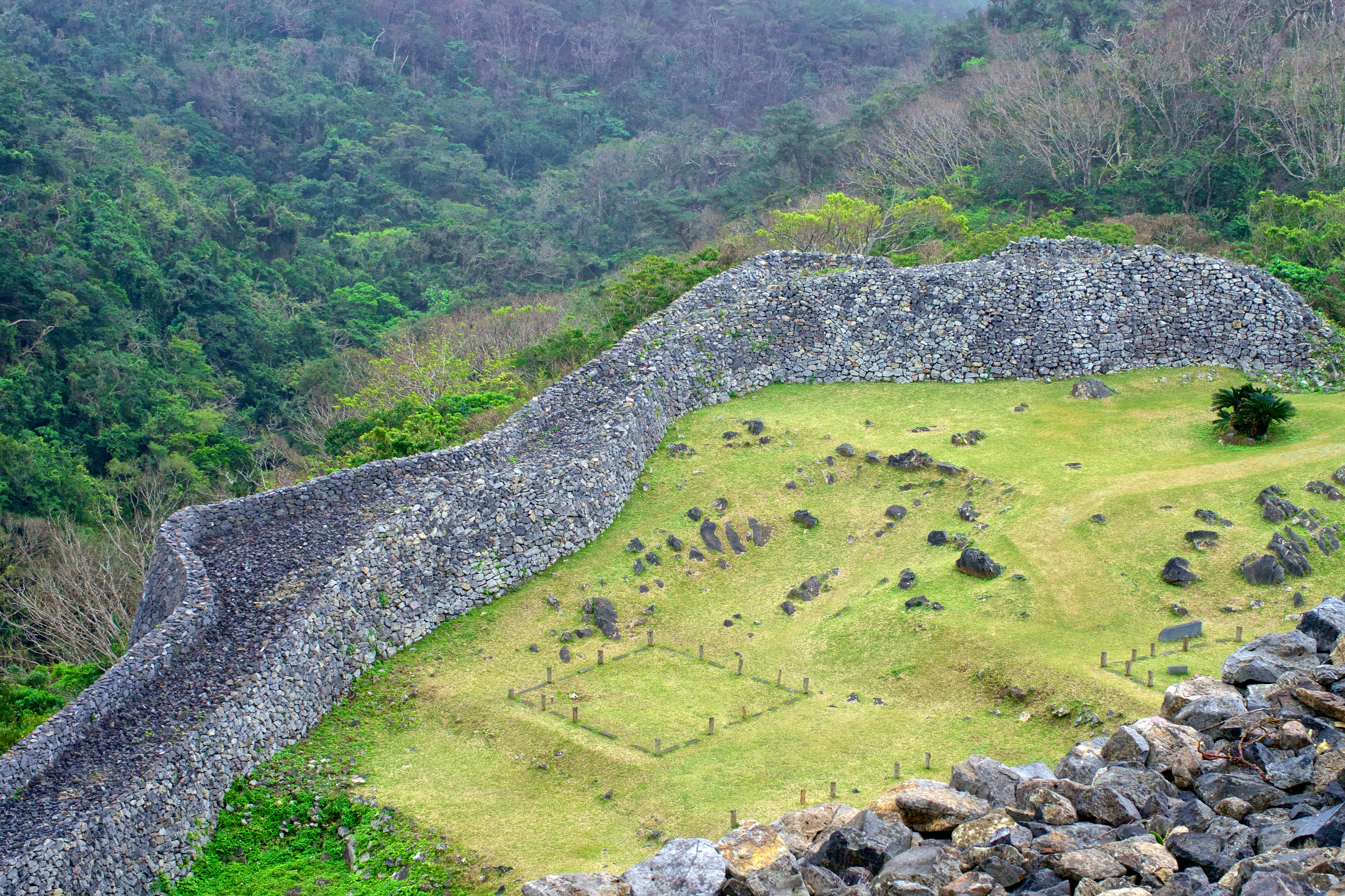 Nakijin Gusuku